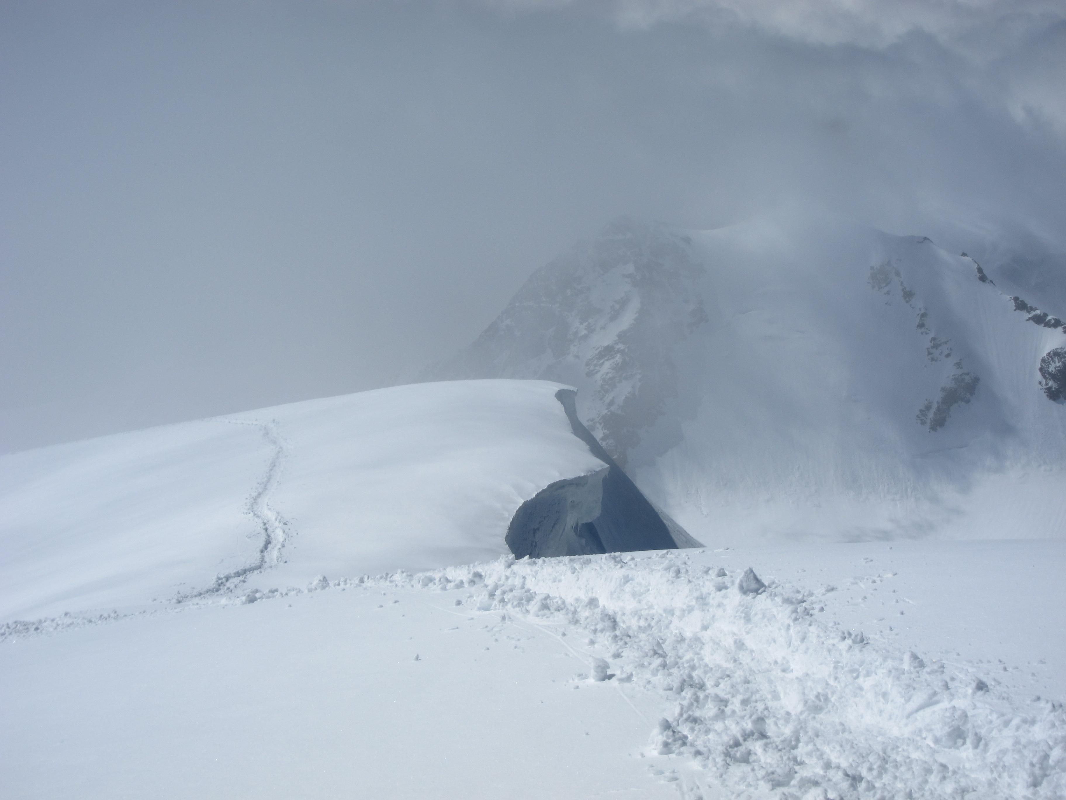 Path in the snow leading to the summit of the mountain Palon De La Mare (3.703 m.a.s.l.) seen from the summit. The mountain is located in the province of Sondrio in region Lombardy in Italy. Picture taken on the 23rd of June in 2019.